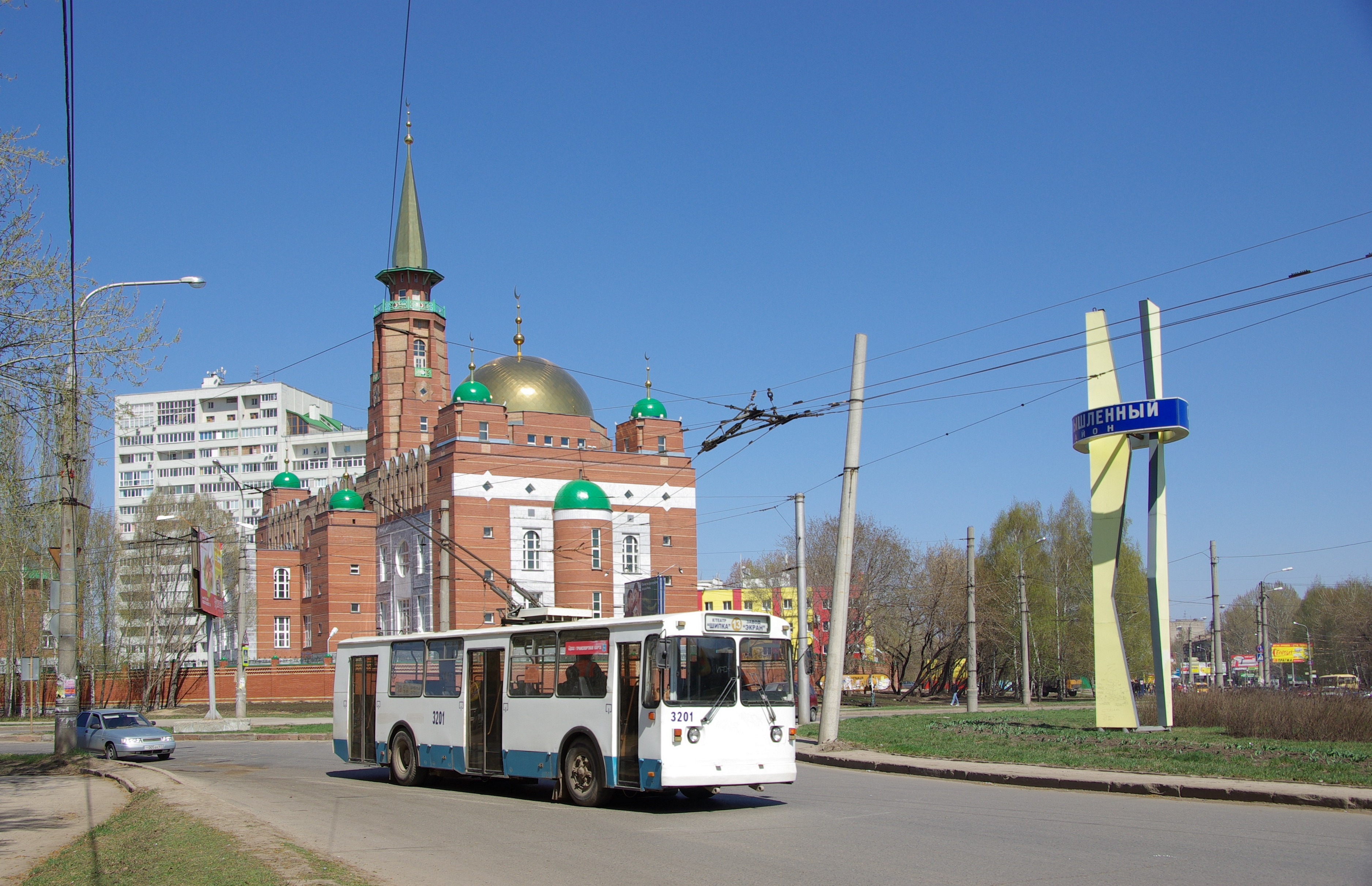 Trolleybus in Samara, Russia